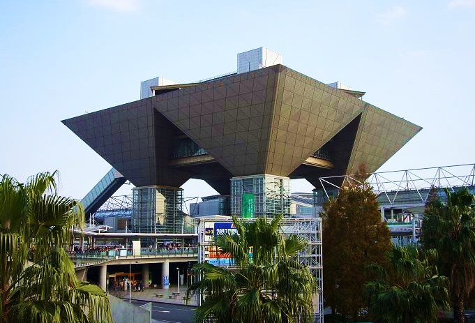 Tokyo Big Sight, Ariake